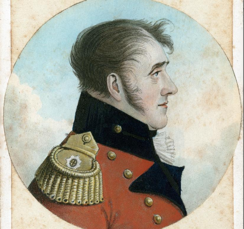 Christoph von der Decken (1765-1846) named: de grote Christoffer